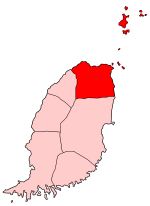 Map of Grenada showing Saint Patrick parish.